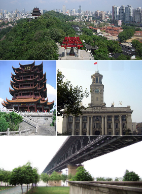 Montage of various Wuhan images